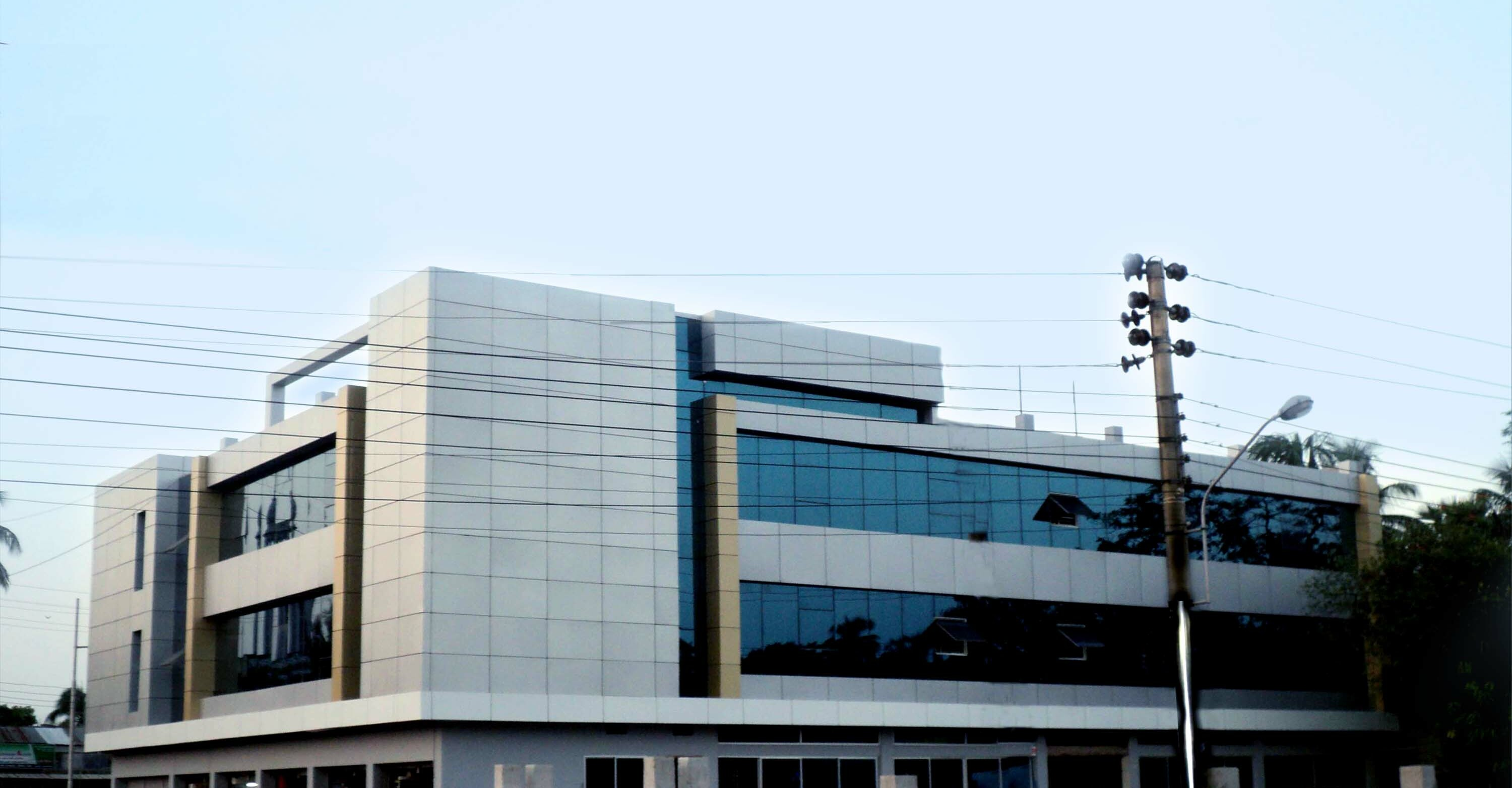 Barisal city, Bangladesh.Country : Bangladesh Division : Barisal DivisionDistrict : Barisal Area : Metropolitan city 19.99 km2 (7.7 sq mi)Population (2008) : Metropolitan 210,374